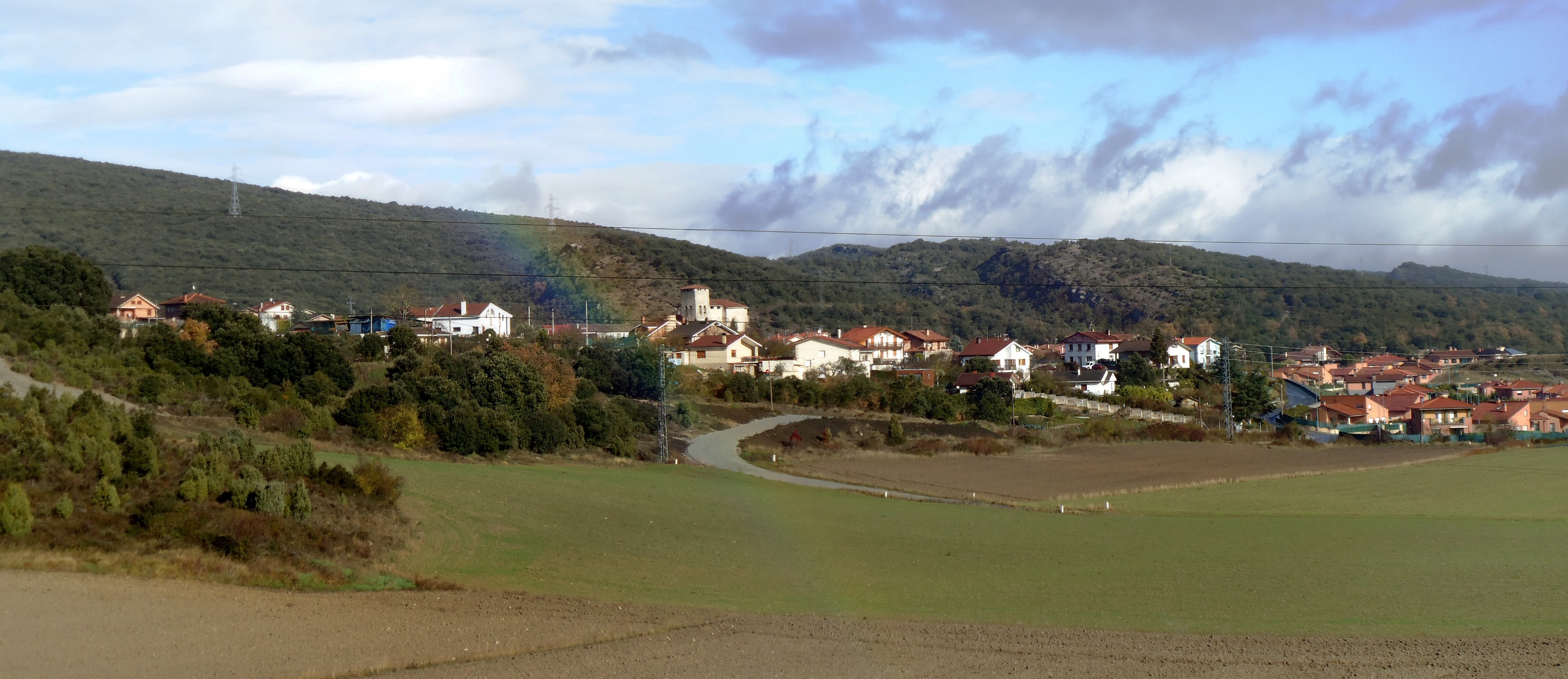 Olabarri village (Iruña Oka, Araba, Basque Country, Spain)